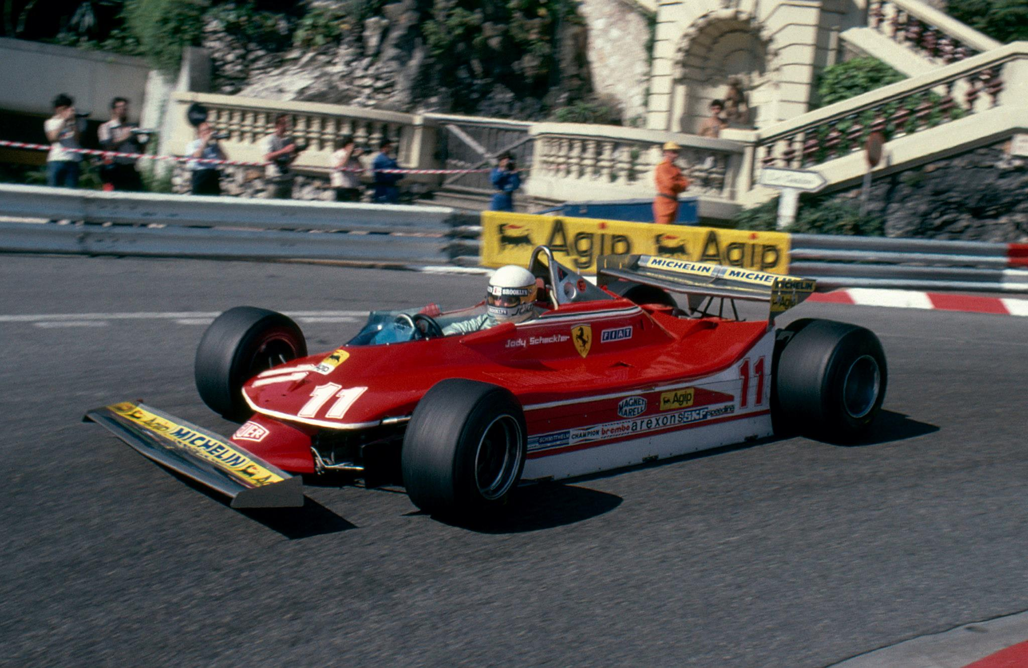 Jody Scheckter, driving his Scuderia Ferrari 312T4 at the 1979 Monaco Grand Prix.